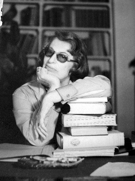 Photo taken by Bioy Casares in Posadas, published at the magazine Pajaro de fuego (Bird of fire)